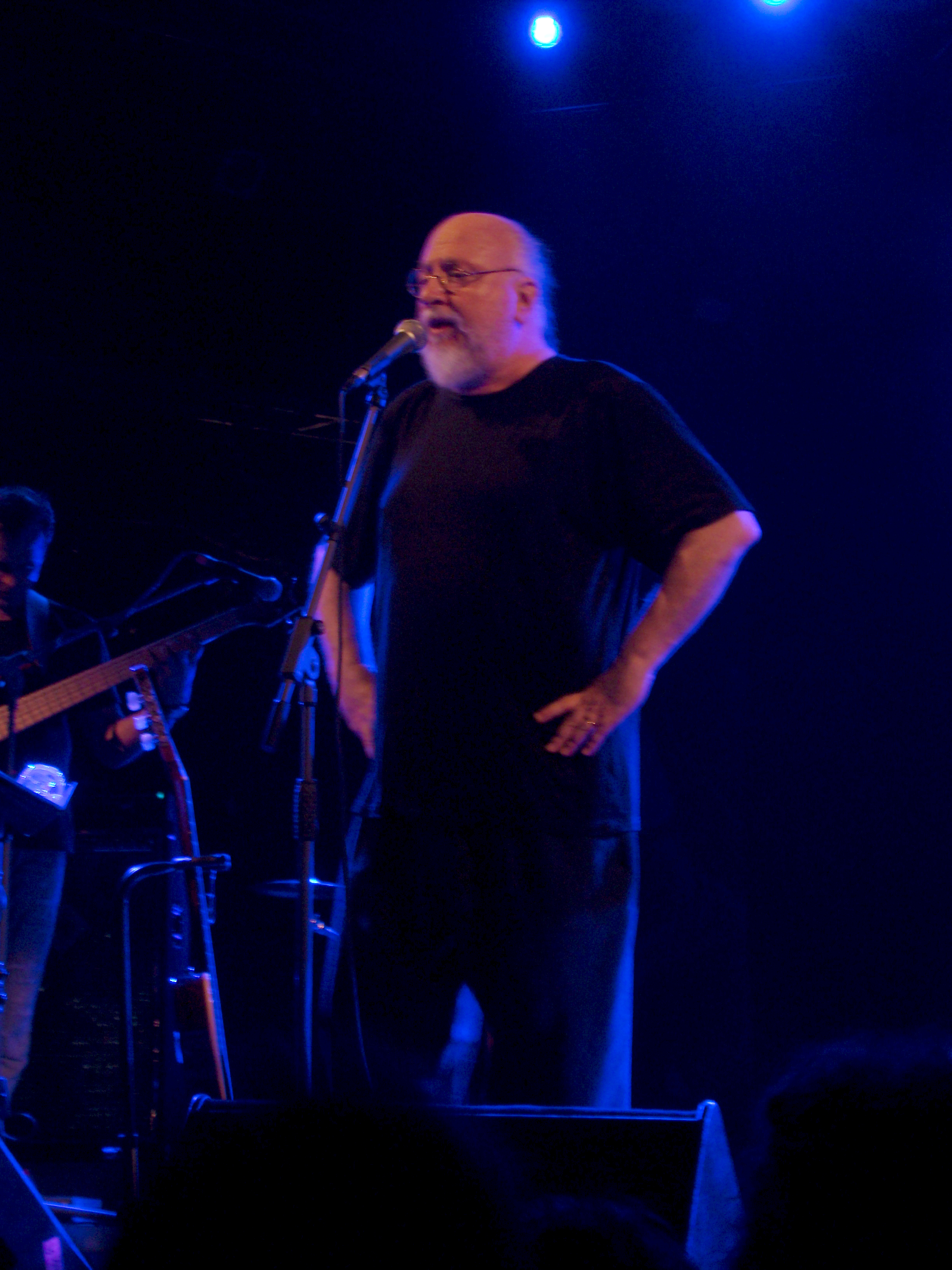 Dionysis Savvopoulos in a concert with Thanassis Papakonstantinou, Heraklion July 2008.